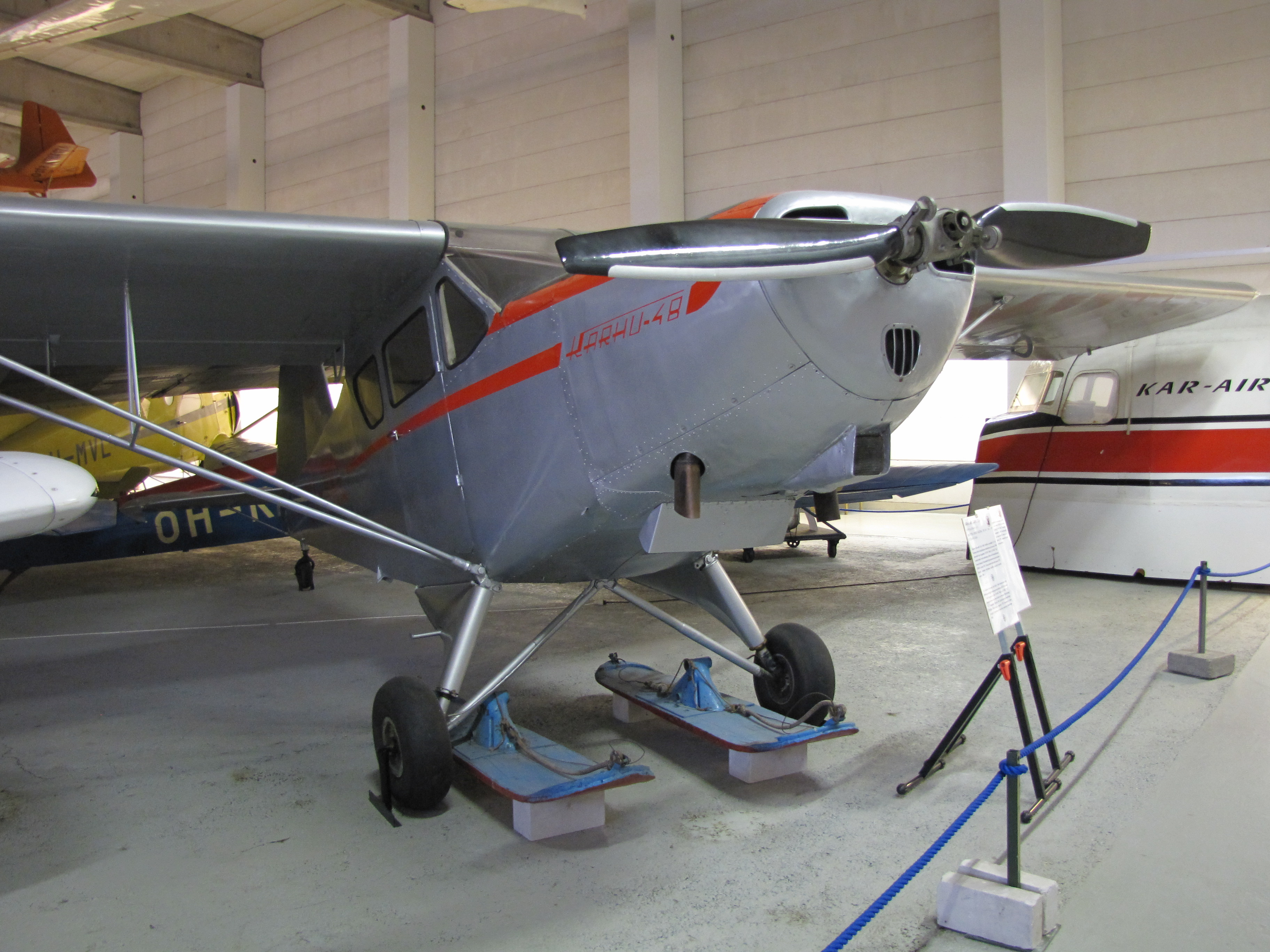 Karhumäki Karhu 48B four-seat touring aircraft in Finnish Aviation Museum. Two examples built in 1948, OH-VKK "Nalle" and the aircraft in picture OH-VKL "Tavi". Re-registered as OH-KUA in 1961.